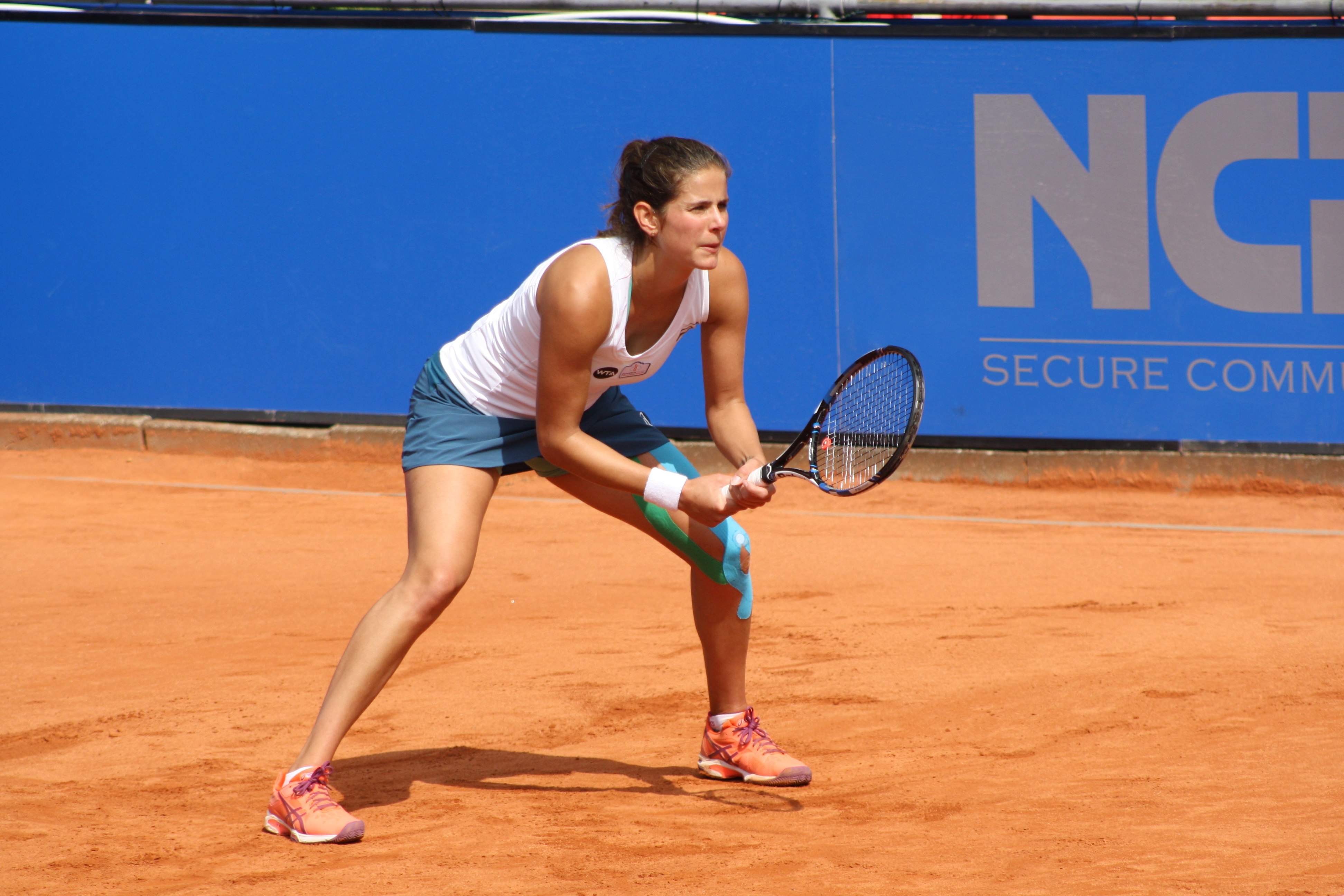 Julia Görges, May 2016